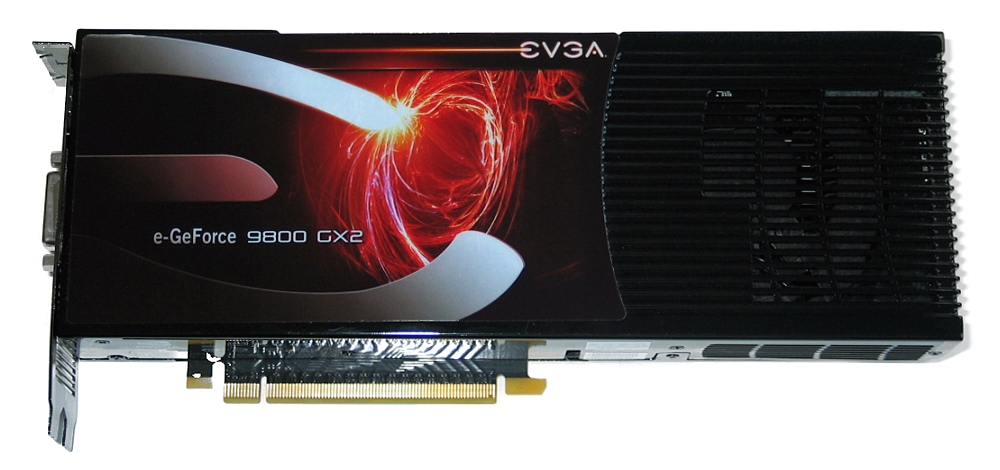 This is an EVGA e-Geforce 9800 GX2 (01G-P3-N891-AR) "SSC Version"